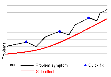 Graph to represent the Fixes that fail archetypes behavior.